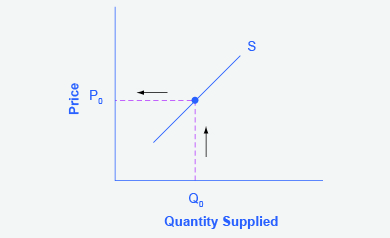 The supply curve can be used to show the minimum price a firm will accept to produce a given quantity of output.